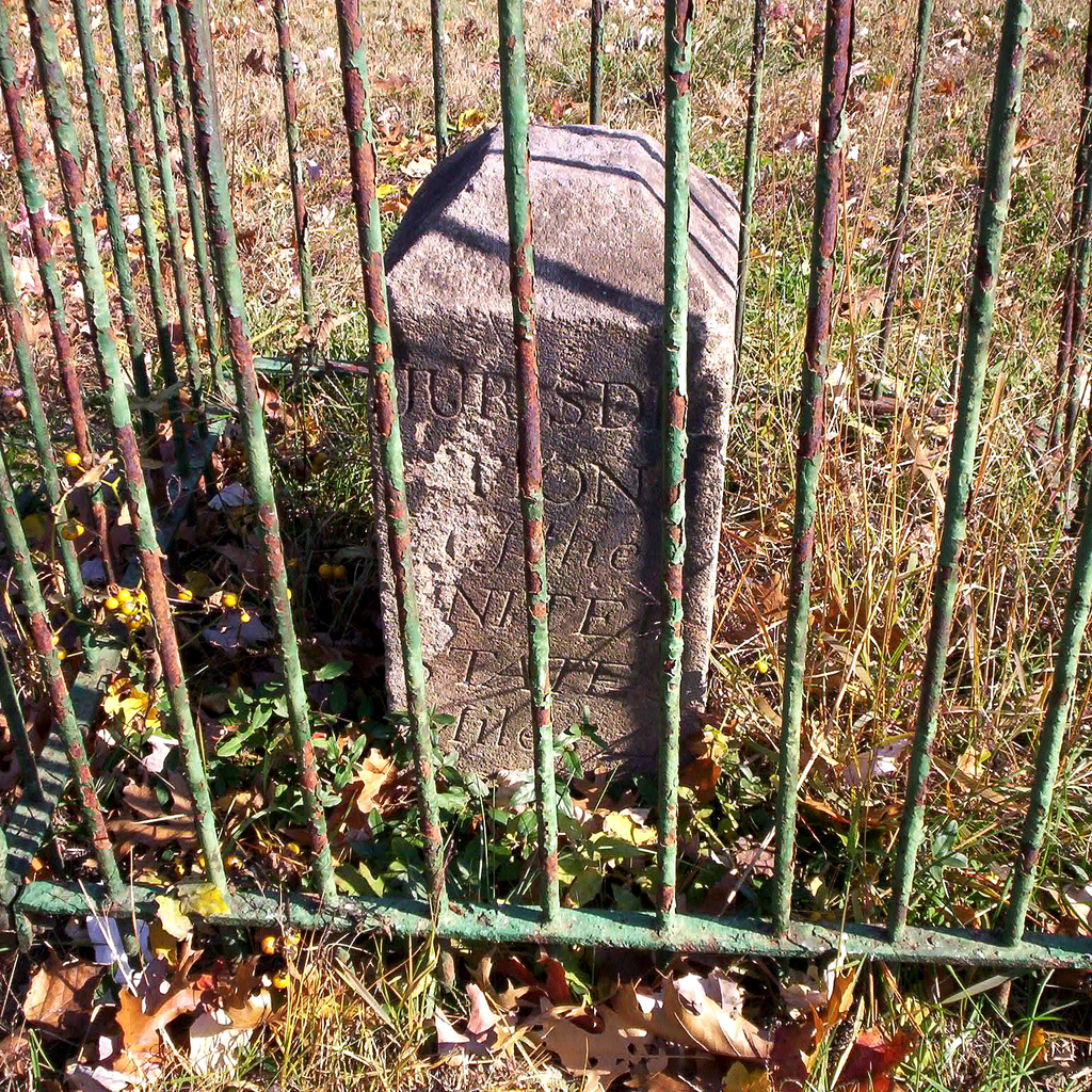 District of Columbia boundary stone NE 4, that is the stone 4 miles southeast of the northernmost corner of DC. Placed in 1791-1792 by Andrew Ellicott and Benjamin Banneker. for a map of these stones.